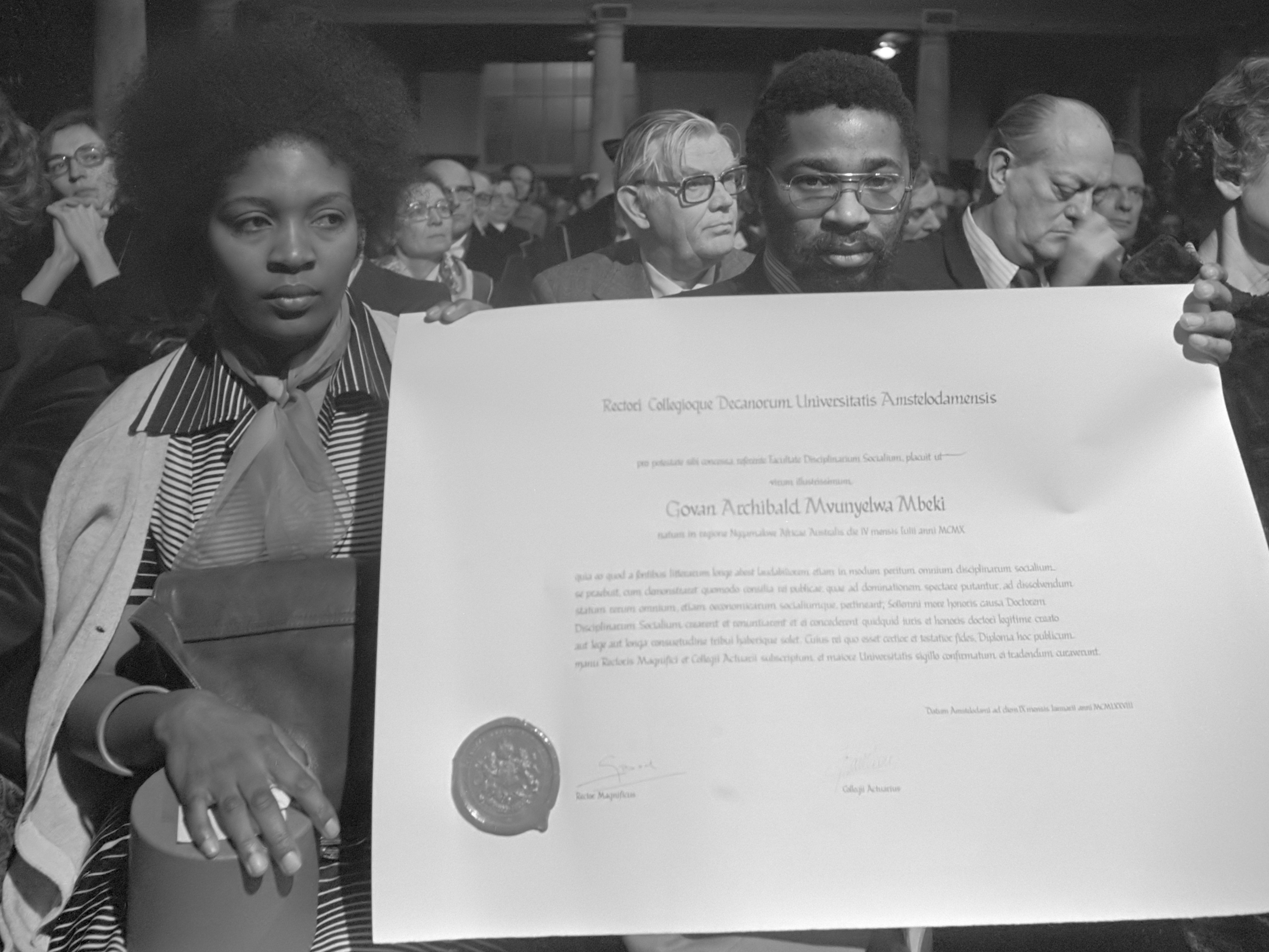 Honorary doctorate (social sciences) from University of Amsterdam to Govan Mbeki (1978). As Govan Mbeki was in prison, the doctorate was handed to his son Moeletsi Mbeki.